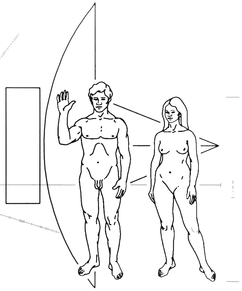 Detail from the Pioneer Plaques.